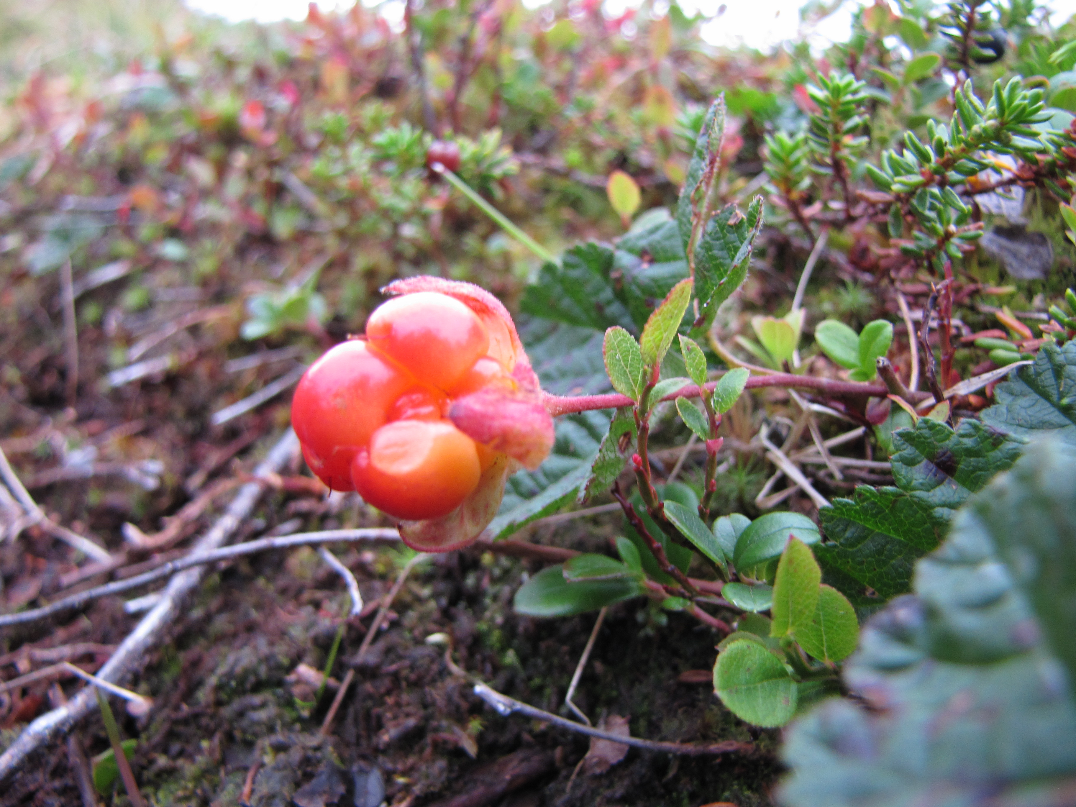 A berry of cloudberry (Rubus chamaemorus) in Kevo Strict Nature Reserve, Finland